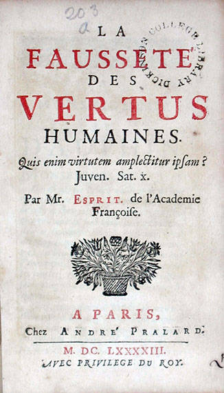 Title page of "La Fausseté des vertus humaines" ("Discourses on the Deceitfulness of Humane Virtues") by French author Jacques Esprit (1611-1677)